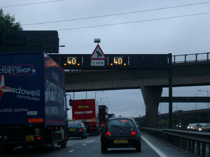 40 mph advisory sign in the UK. "Traffic on Multi Lane Highway Passing Beneath Overpass on Grey Day from Driver Perspective"